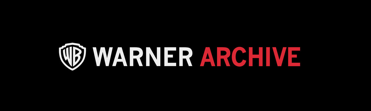 Official Warner Archive Logo taken from official twitter page